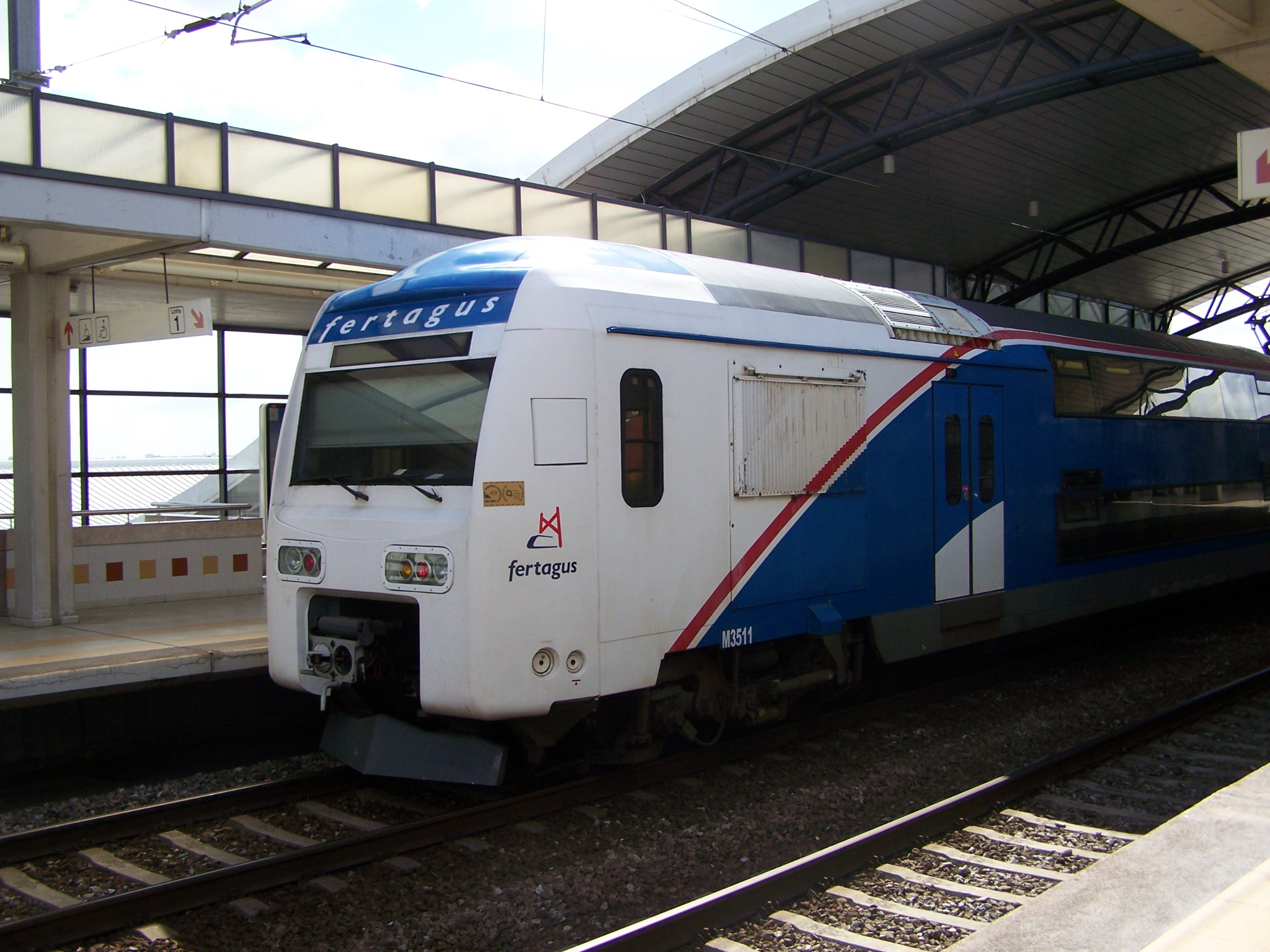 A Fertagus suburban train at Corroios station, near Lisbon, Portugal